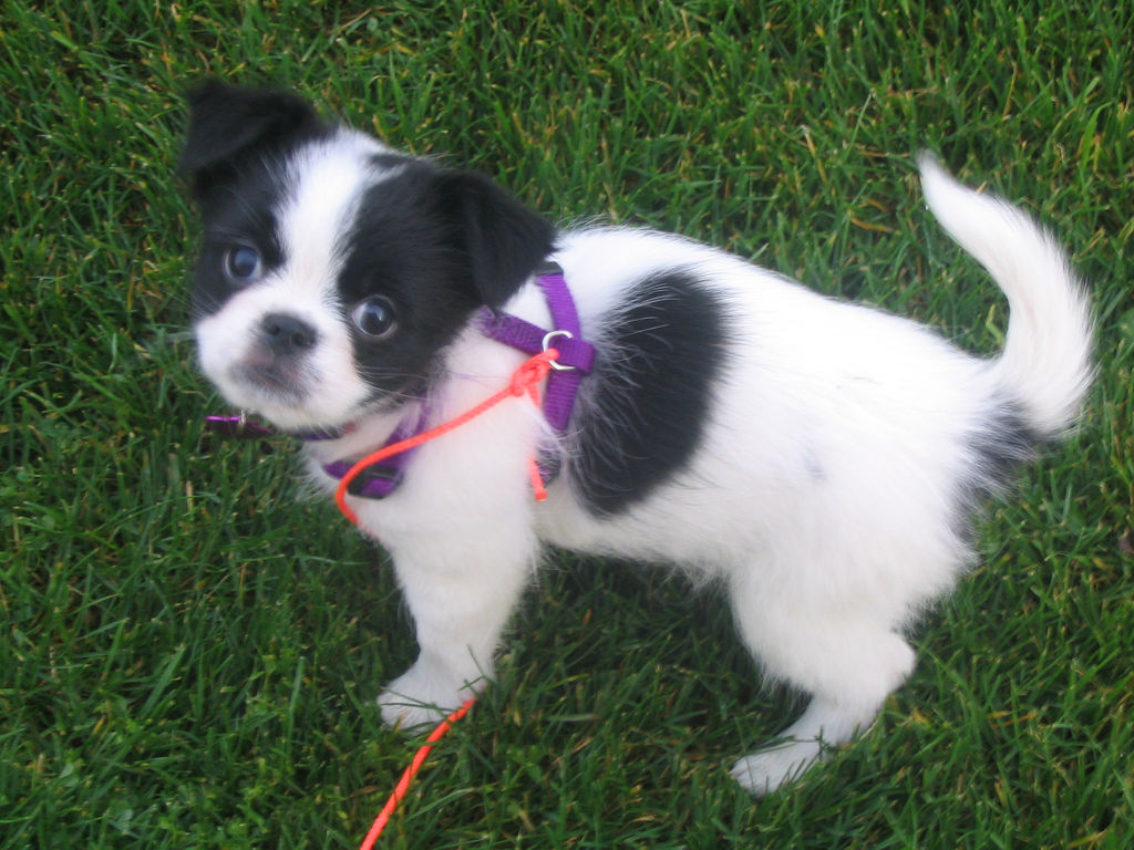 A Japanese Chin puppy.